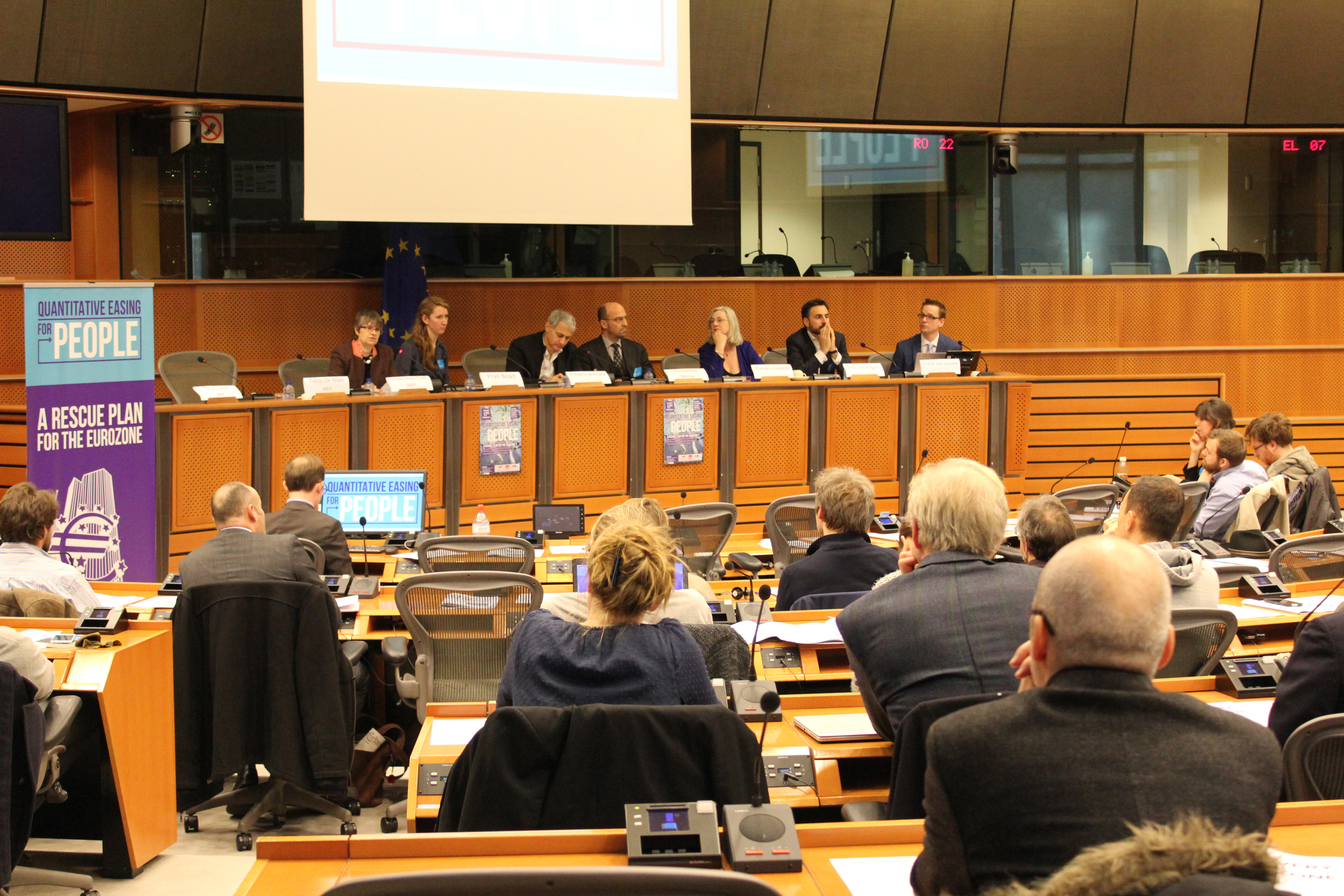 On February 17th 2016, Members of the European Parliament together with Positive Money hosted a conference on alternatives to quantitative easing in the euro zone.